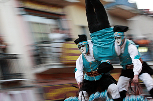 Sa Sartiglia - Oristano , Sardinia-Italy